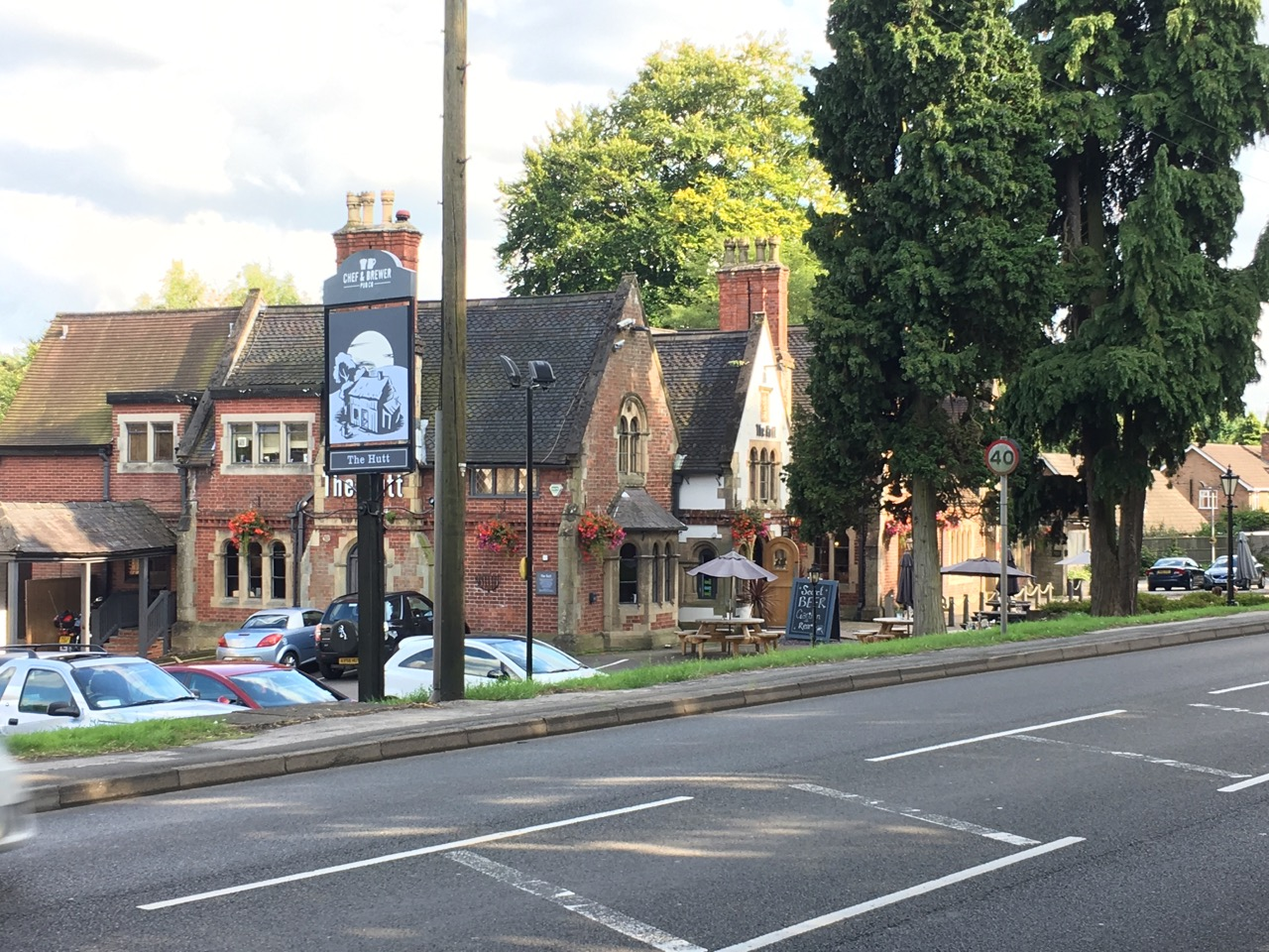 The Hutt